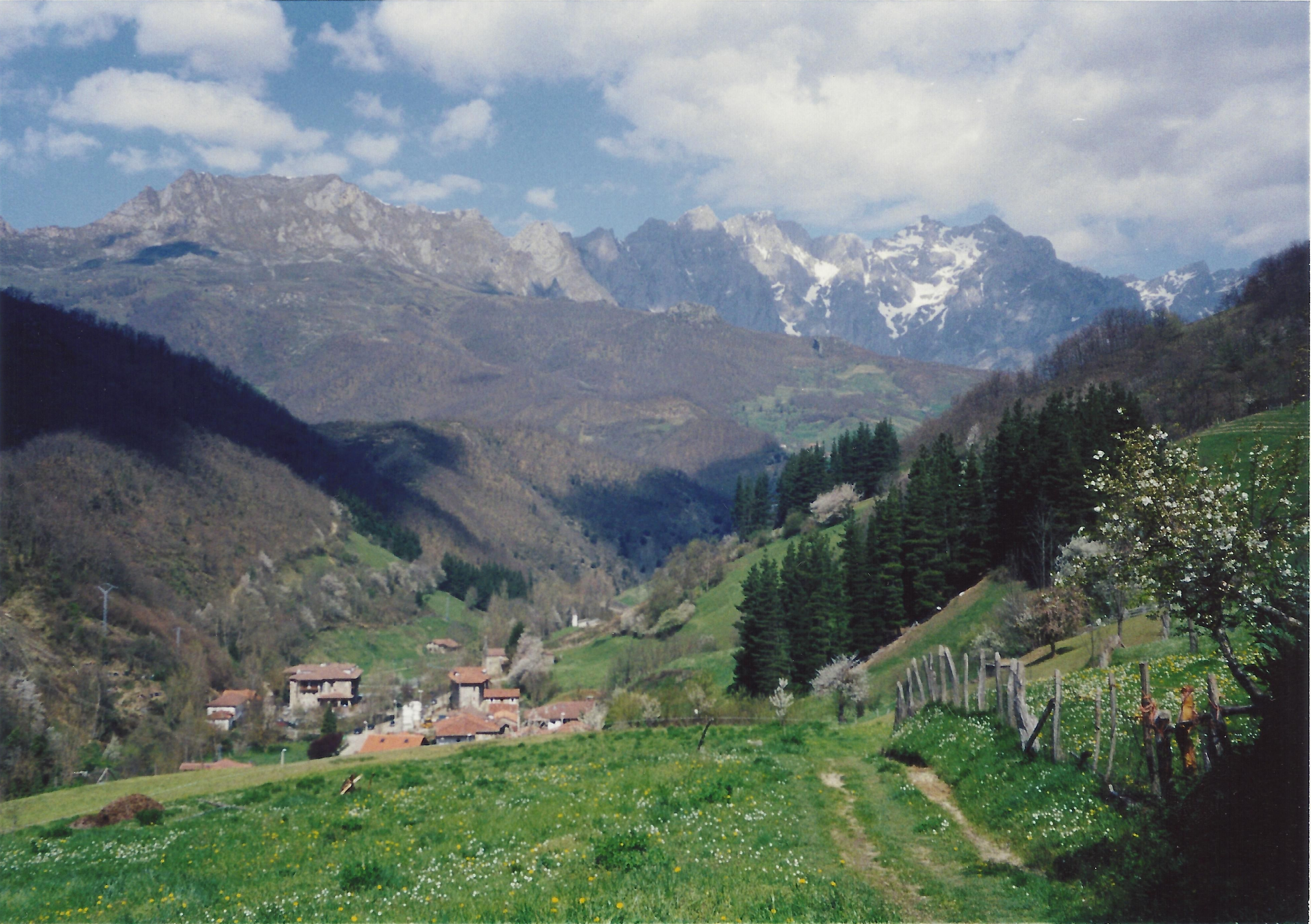 Areños neighborhood taken from Cosgaya neighborhood